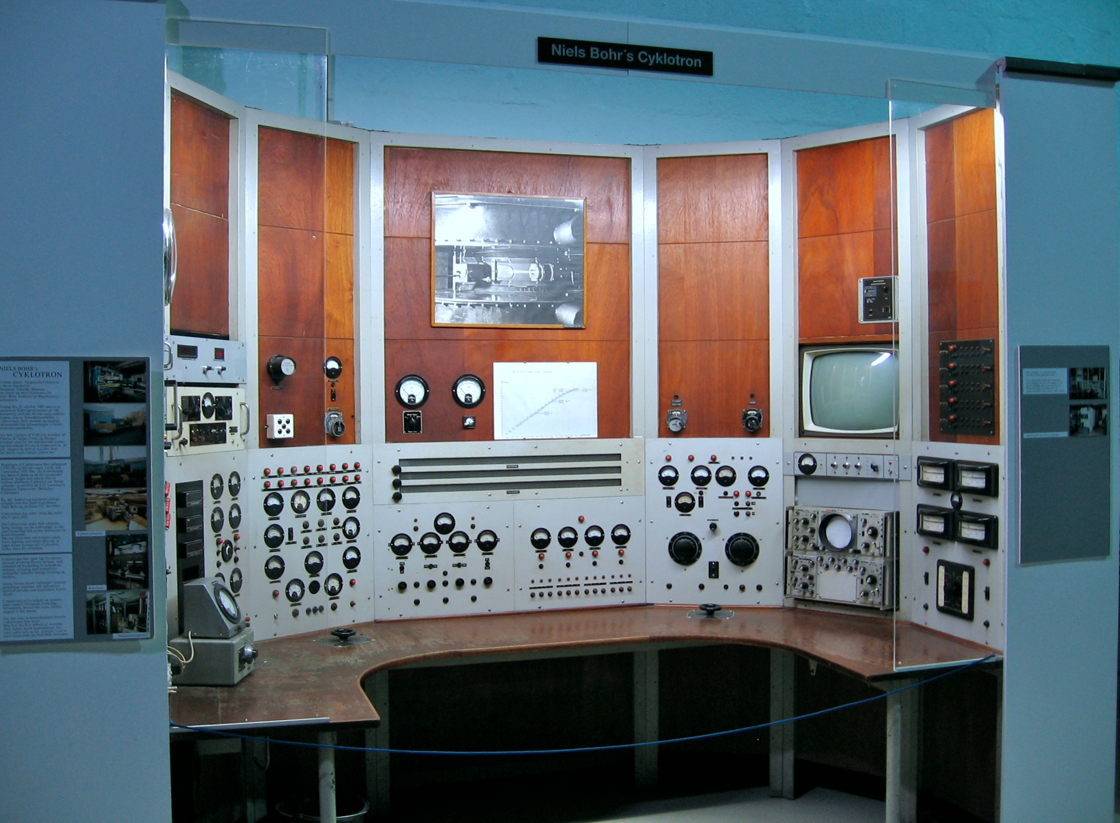 Niels Bohr's cyclotron, now at Danmarks Tekniske Museum in Elsinore